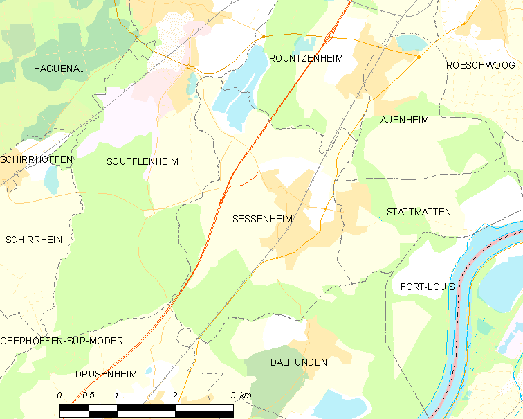 Map of French municipality